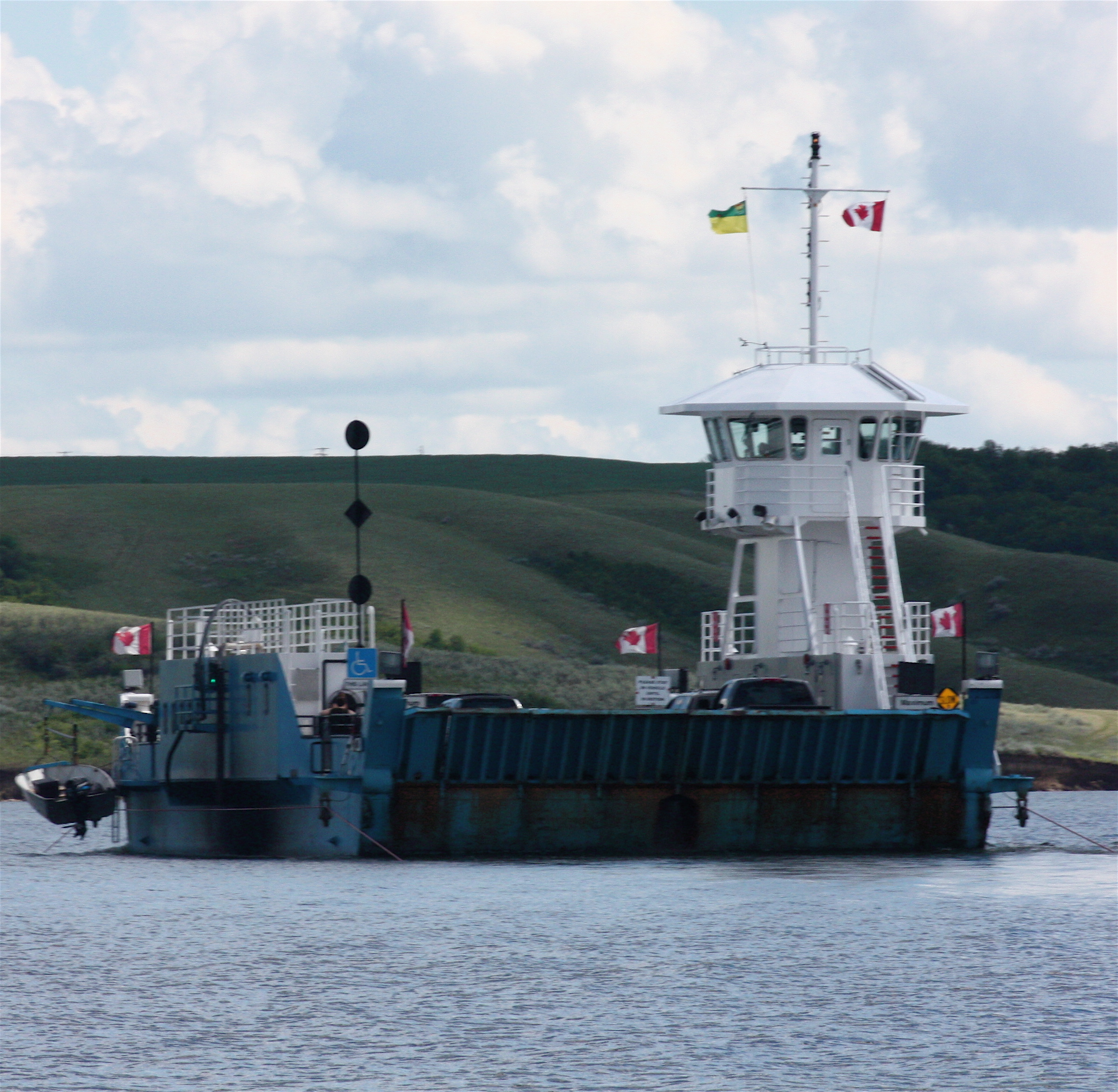 Riverhurst Ferry front view, showing cables on far sides and drive cable in center.